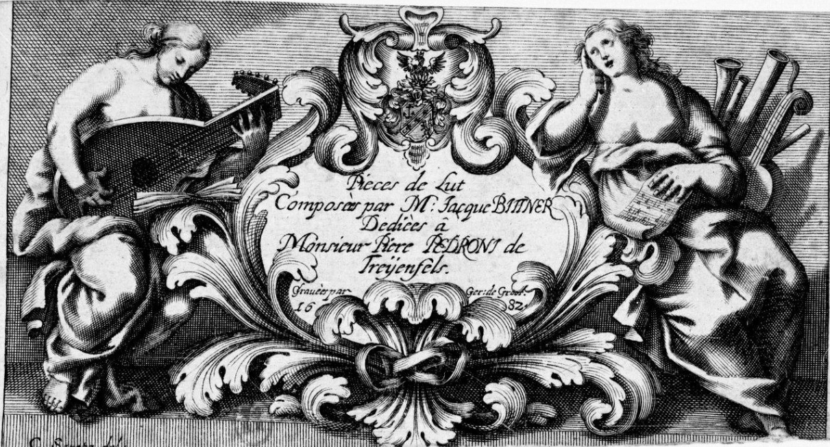 Title page of Pièces de lut composed by Jacques Bittner. Published in Nuremburg in 1682